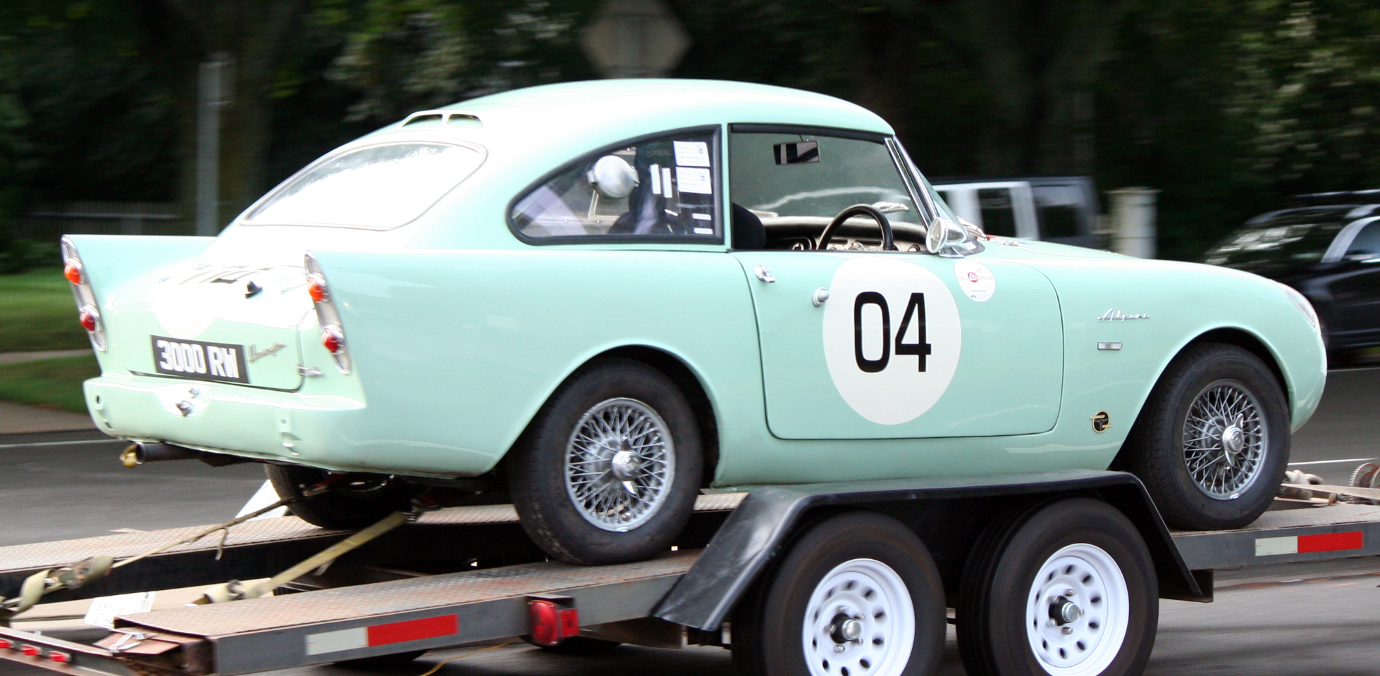 1961 Sunbeam Alpine Harrington Coupé, developed for LeMans. This car has a 1,725 cc engine.